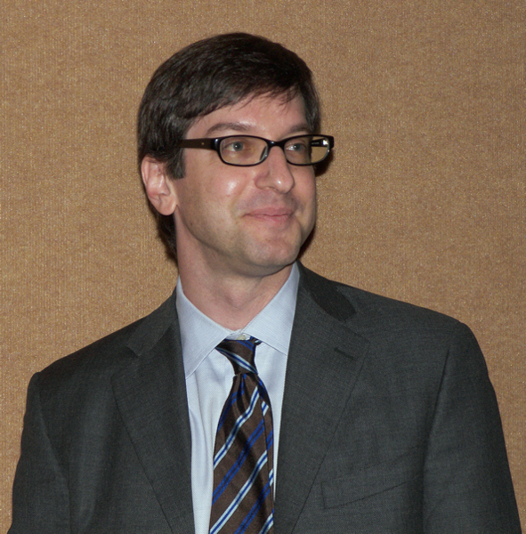 Dr. David Laibson, Professor of Economics at Havard, presenting a session on "Behavioral Finance: Insights into Decision Making" at Charles Schwab Institutional Impact 2007 at the Mandalay Bay Convention Center, Las Vegas, Nevada, United States.